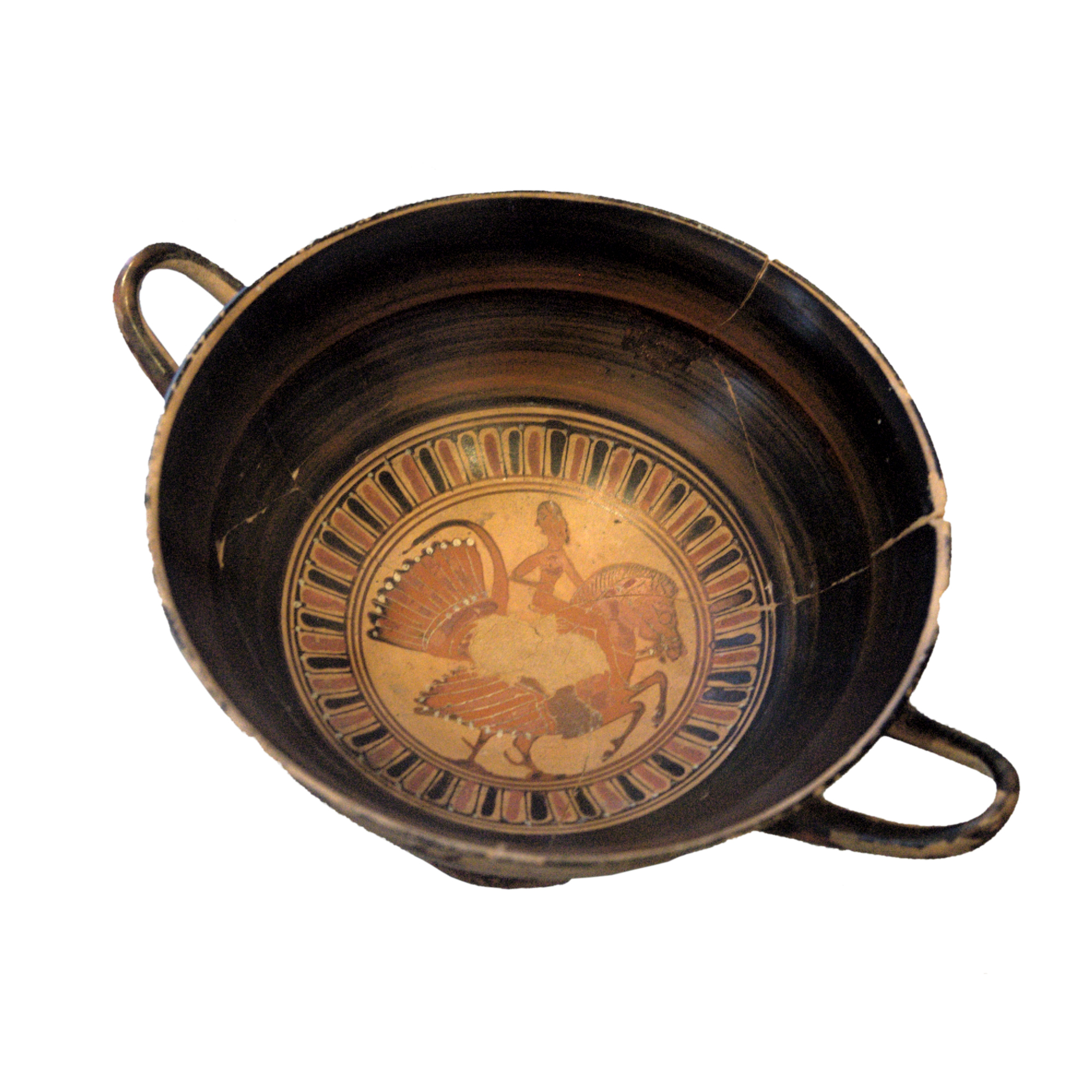 Man riding hippalektryon. Interior of an Attic black-figure lip cup, 540–530 BC.